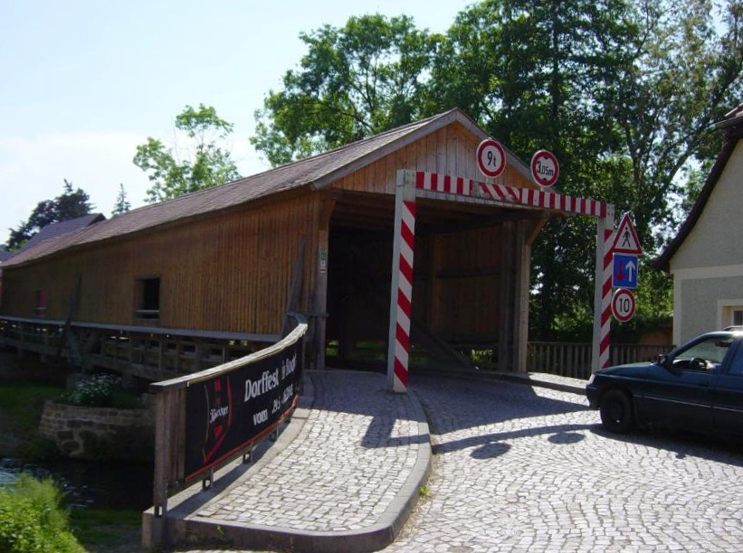 Wooden bridge over the Ilm river in Buchfart near Weimar